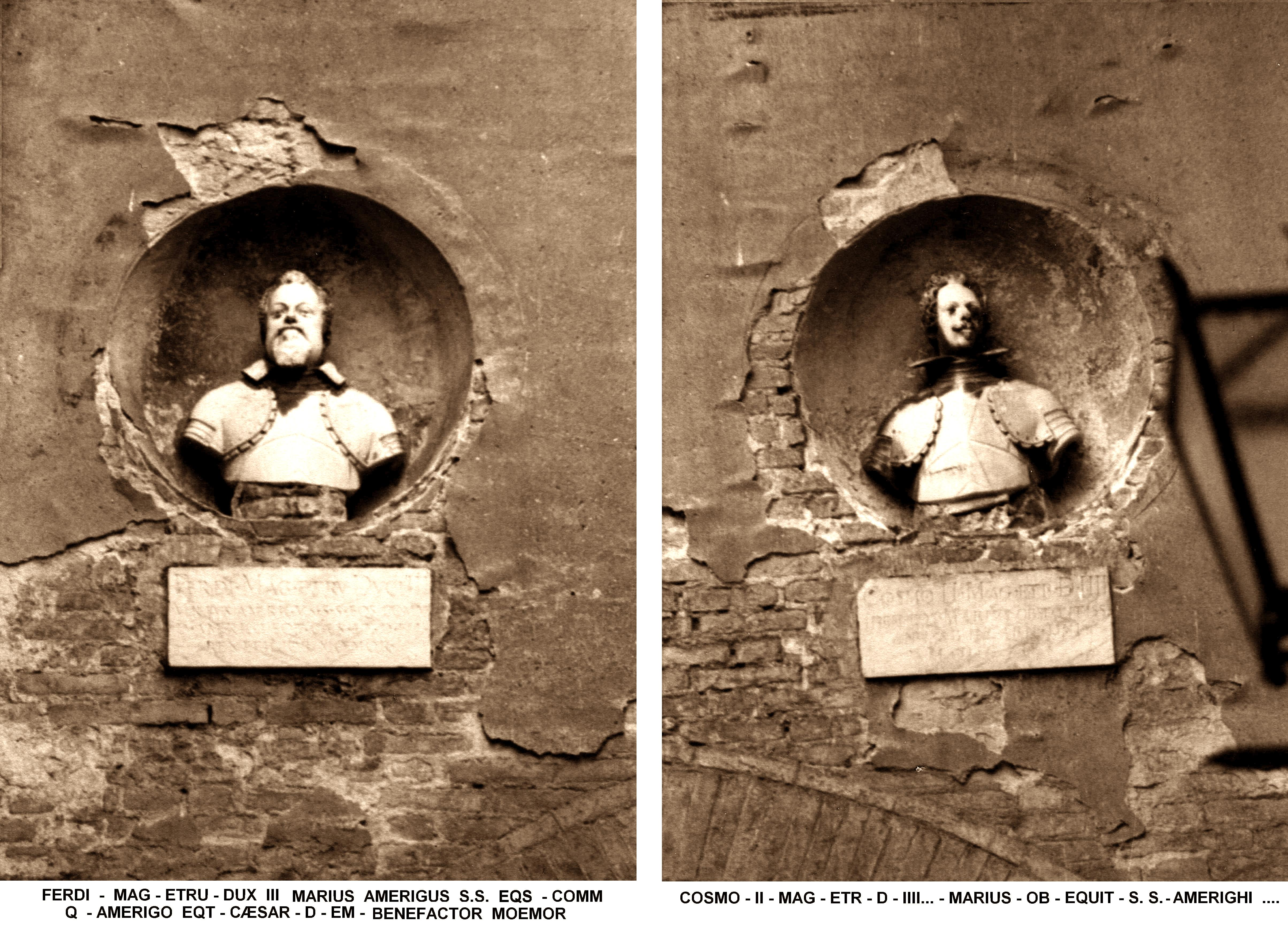 Medici busts Gate of San Maurizio - Commissioned by Mario Amerighi - Siena (14 January 1616)